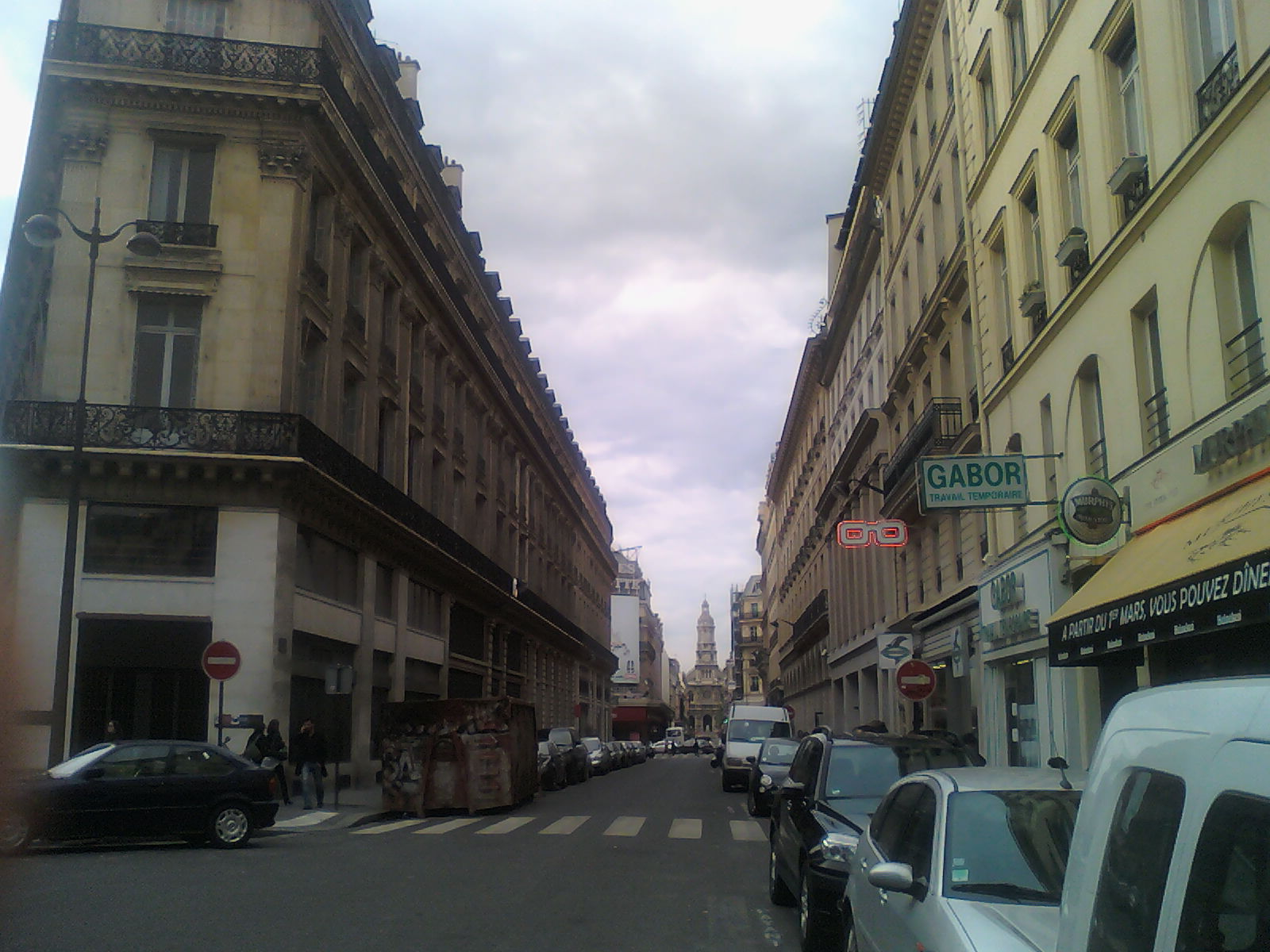 rue de la Chaussée d'Antin in Paris